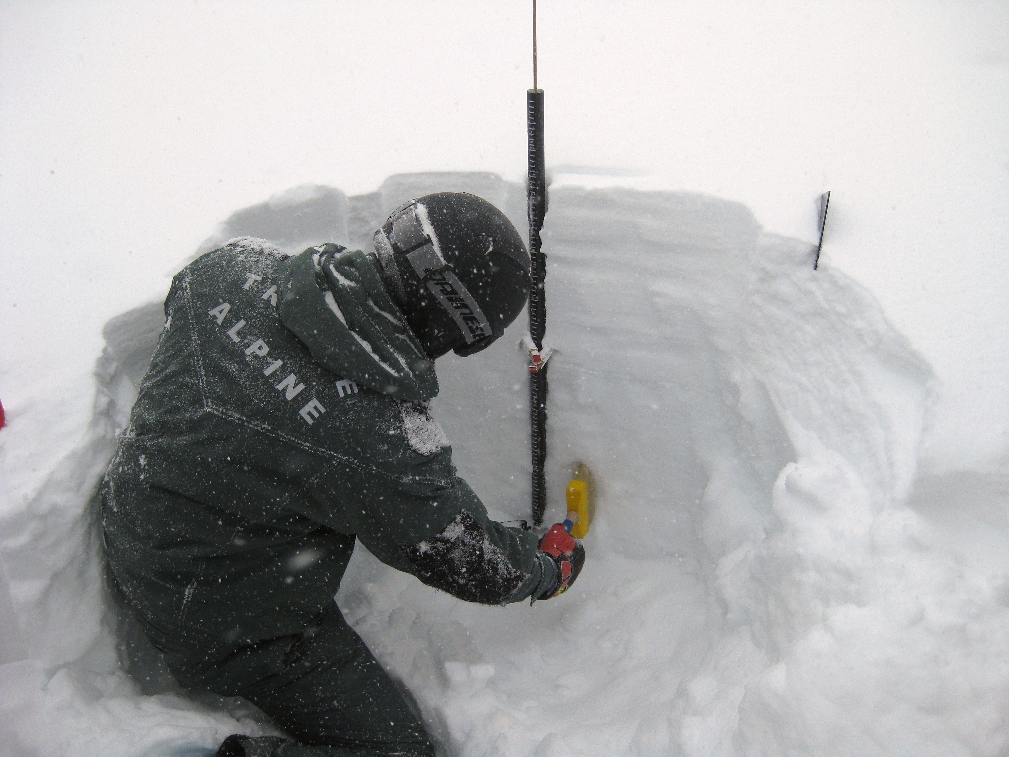 An Italian Army Truppe Alpini Meteomont instructor prepares snow for a hard-pack assessment. During the assessment, instructors show how to differentiate among the various layers, levels and types of snow pack.